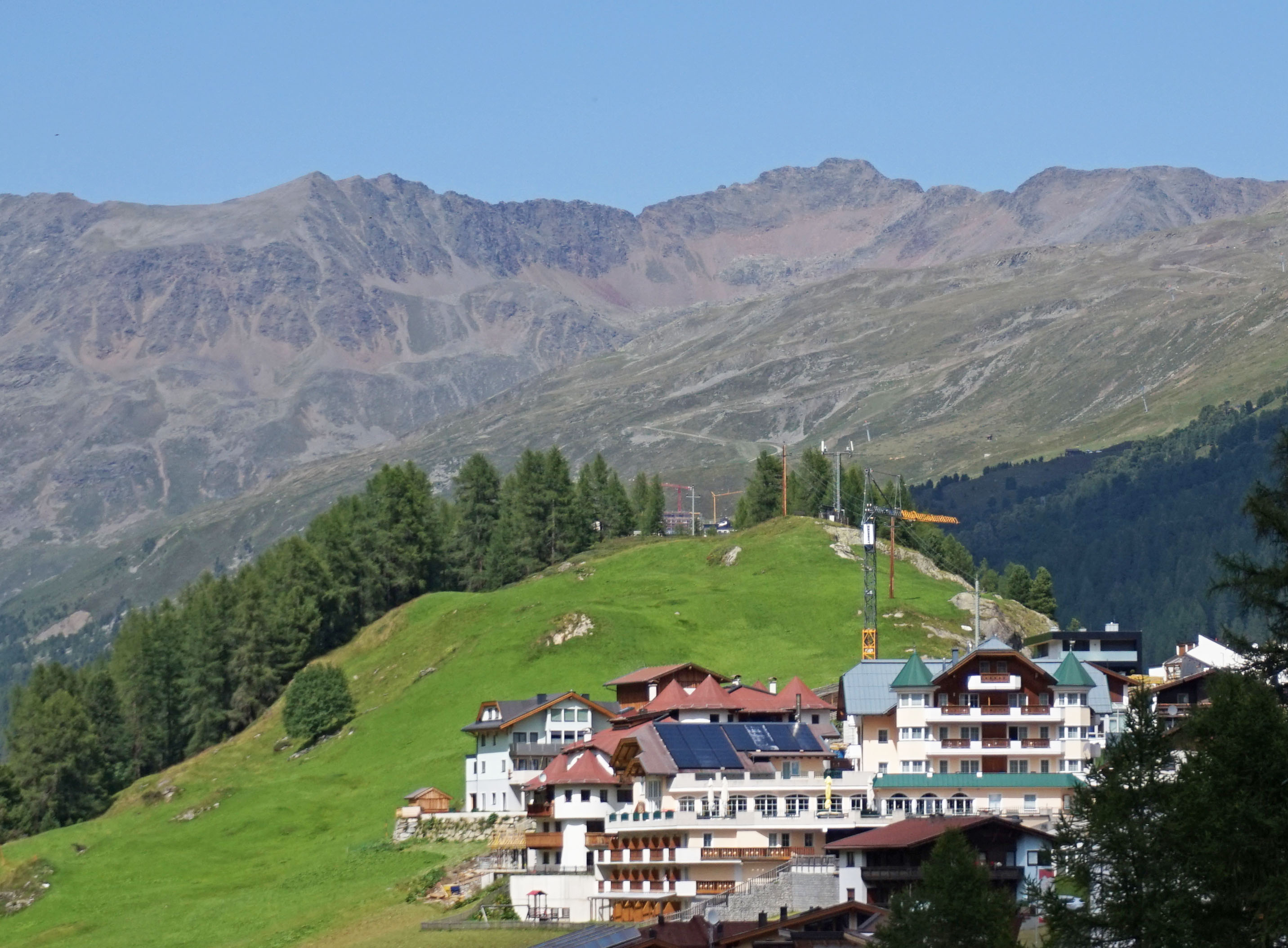 Obergurgl, Austria.This photograph was taken with a Sony ILCE-5000